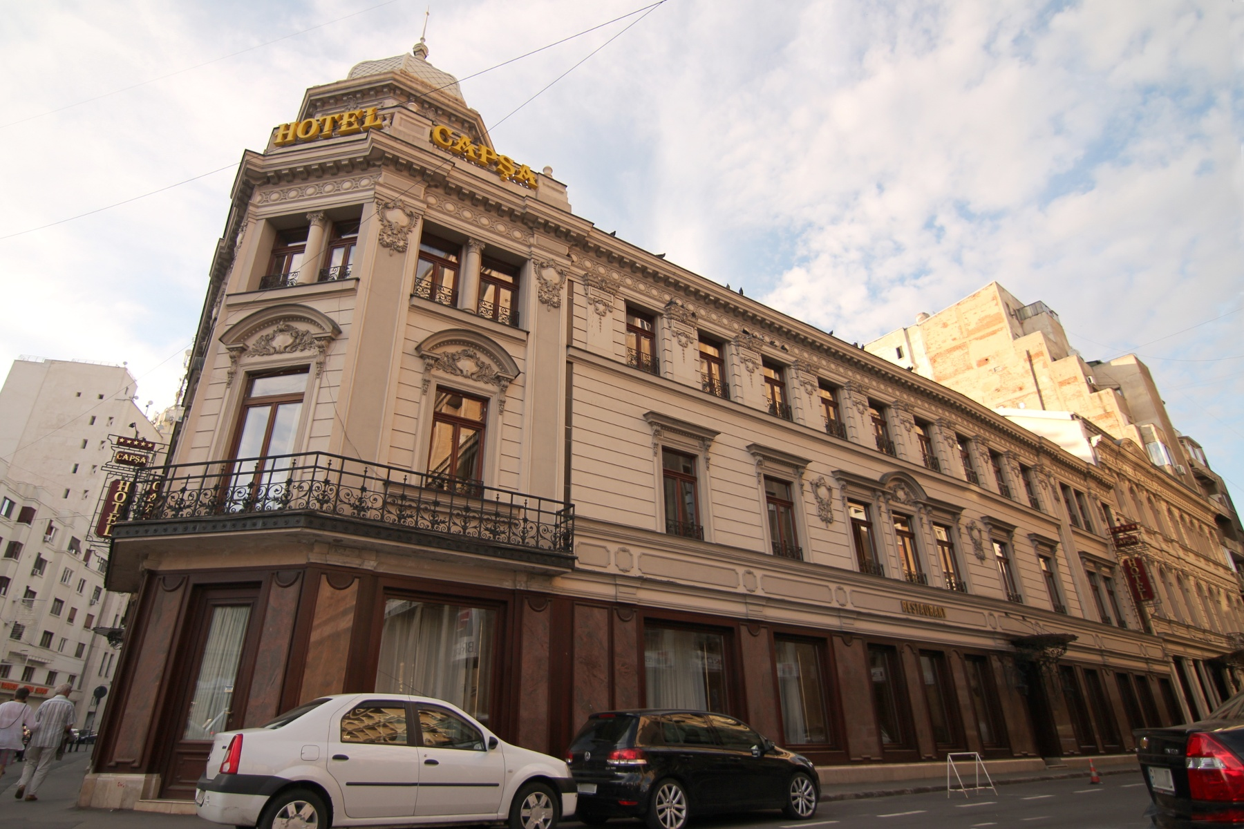 Casa Capșa in Bucharest